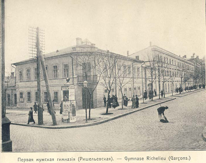 Photo of the building of Odessa 1st men gymnasium c. ~ 1910